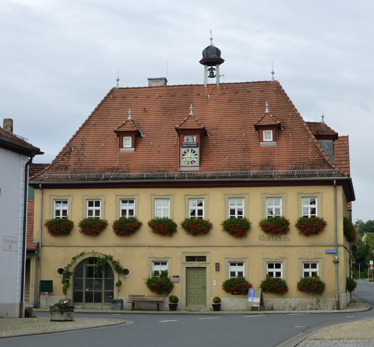 Town hall of Wiesenbronn, built 1724. Note the small group above the clock, dating from 1648. Bavaria (Lower Franconia).